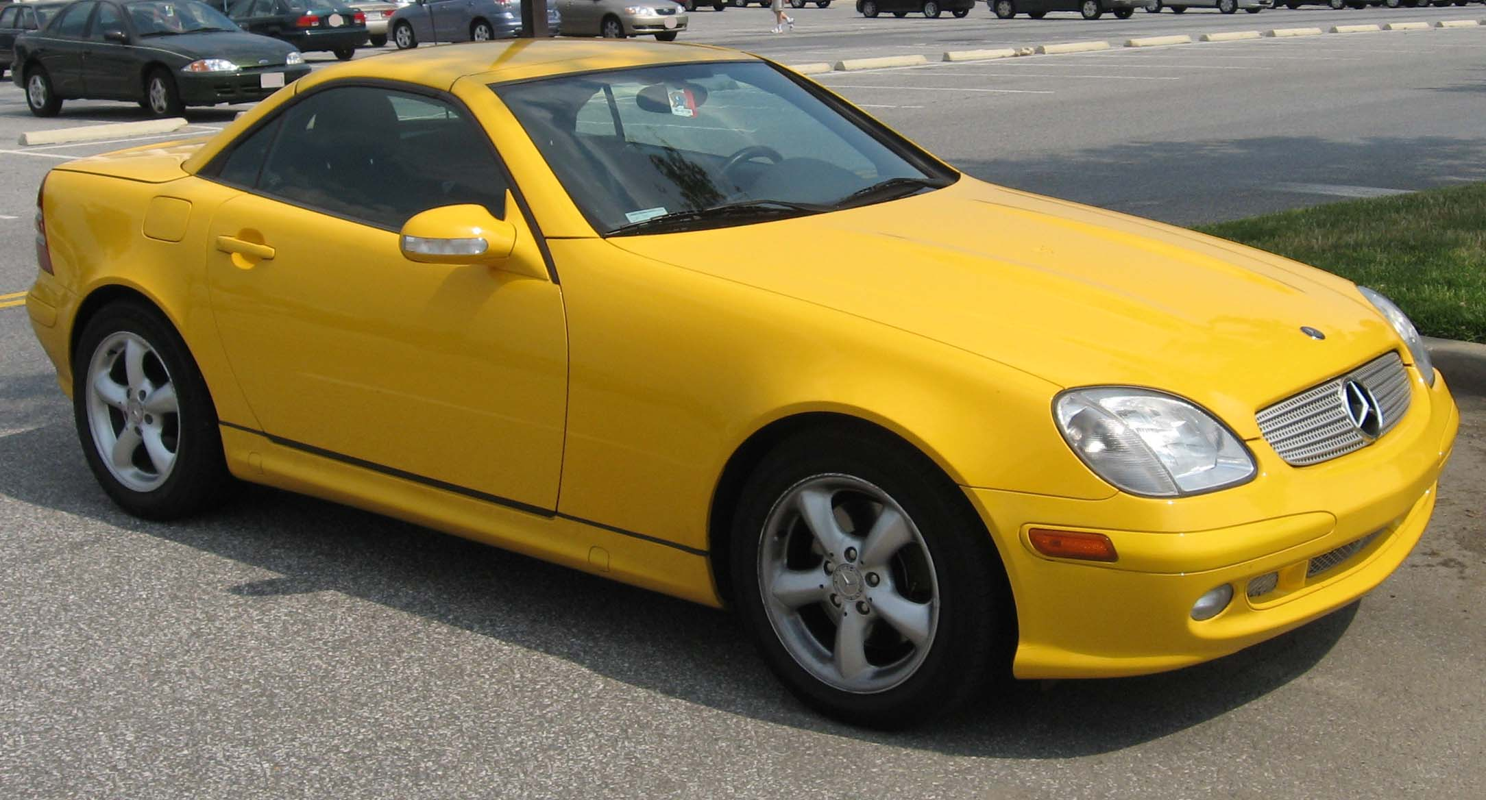 Mercedes-Benz SLK photographed in USA.